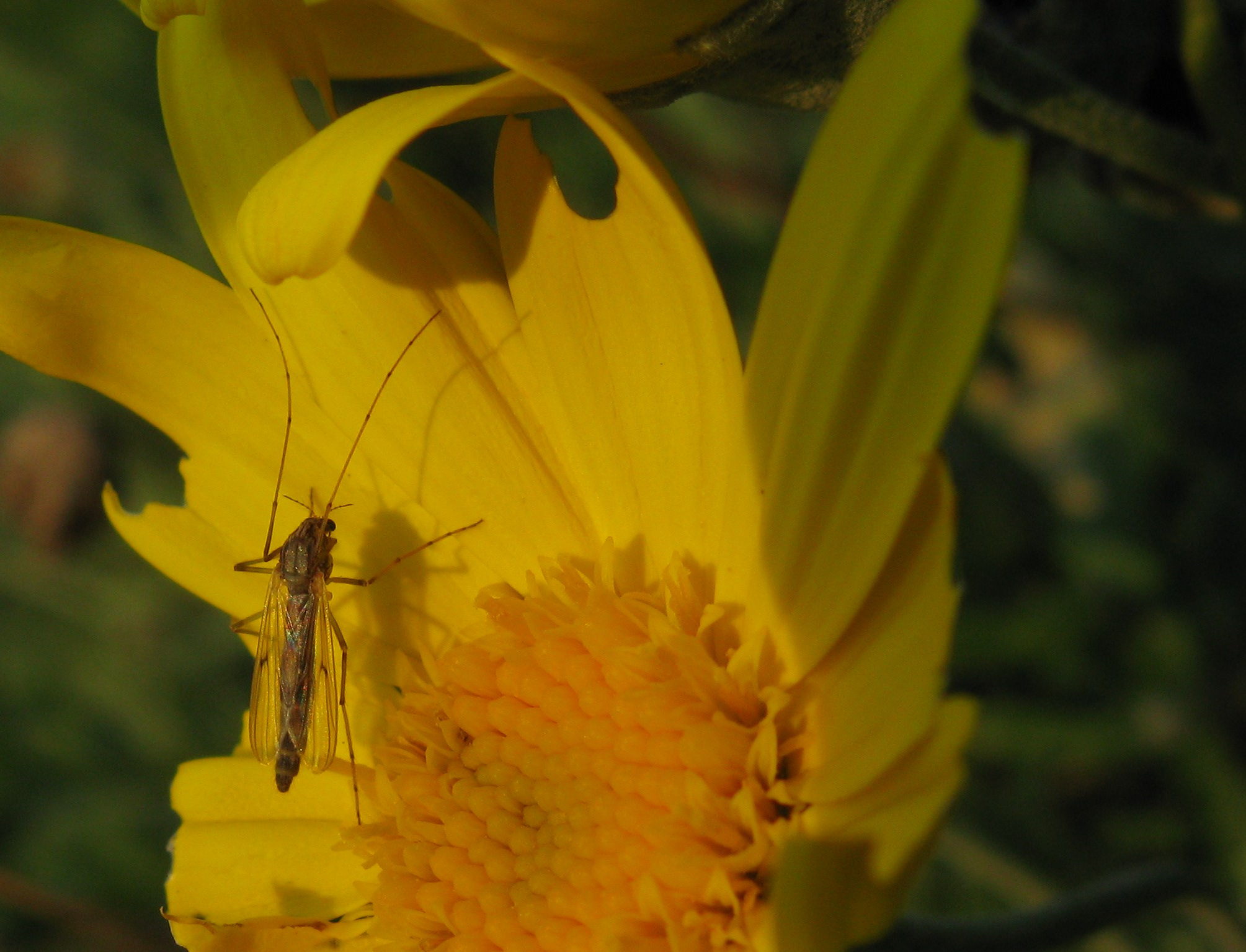 Chironomidae sp. midge. Female found on flower of a Euryops sp. The damage to the flower had nothing to do with the midge; probably caused by Meloid beetles.